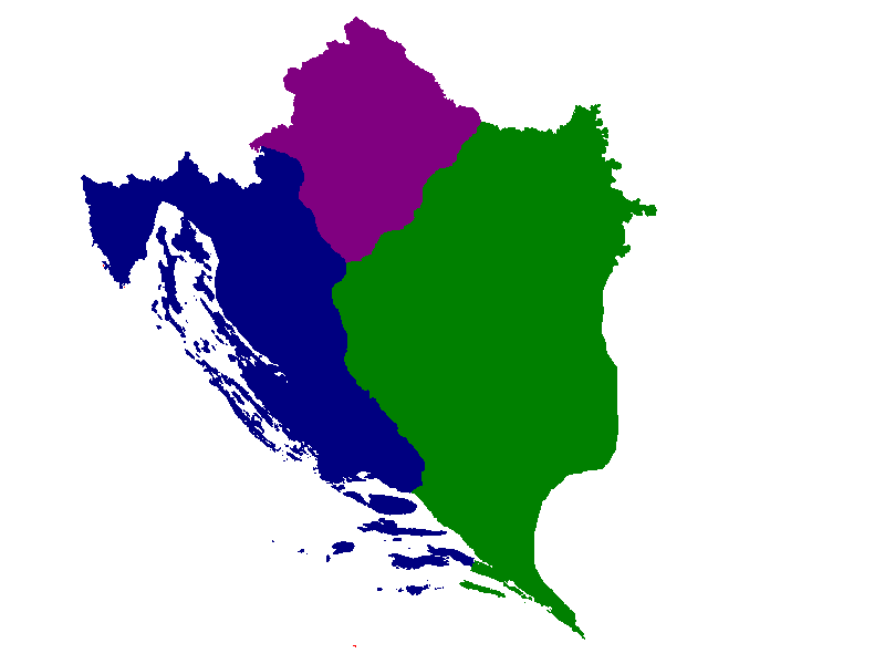 Borders of western shtokavstina in Croatia and BiH (areas in BiH are shown in lighter colors).